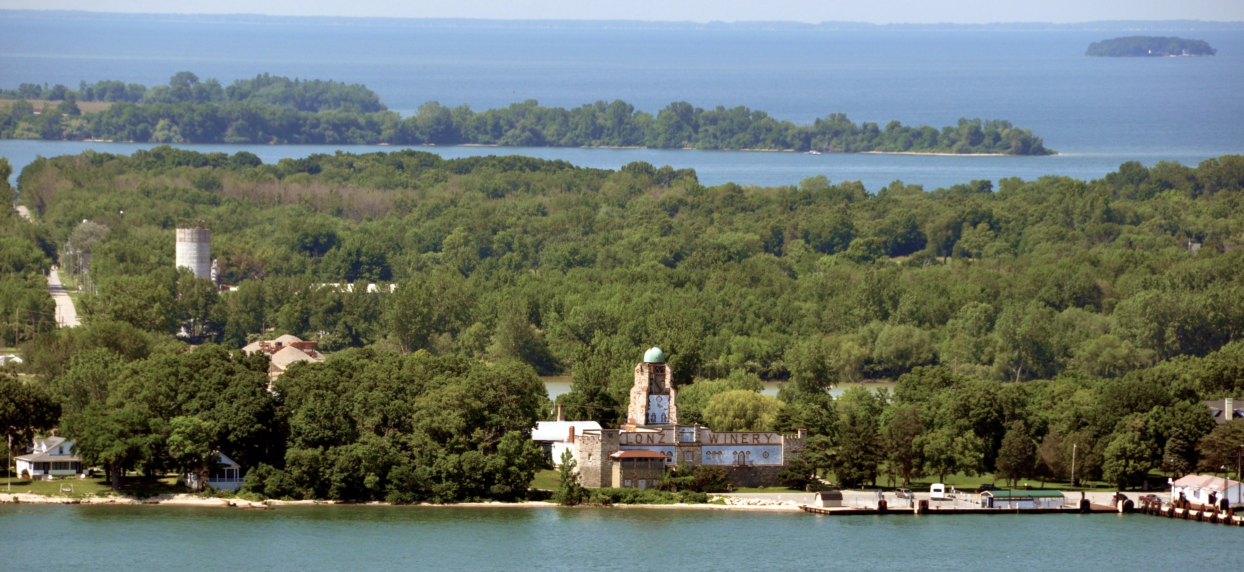 The Lonz Winery on Middle Bass Island (taken from Perry's Victory, Put-In-Bay)